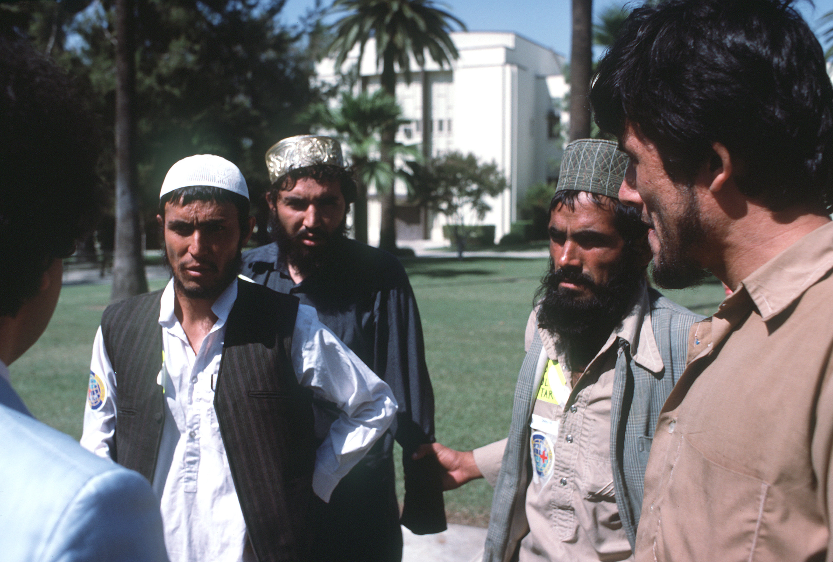 Original caption: Afghan guerrillas that were chosen to receive medical treatment in the United States walk to the cars which will transport them to nearby hospitals. Location: Norton Air Force Base, California (CA) United States of America (USA)